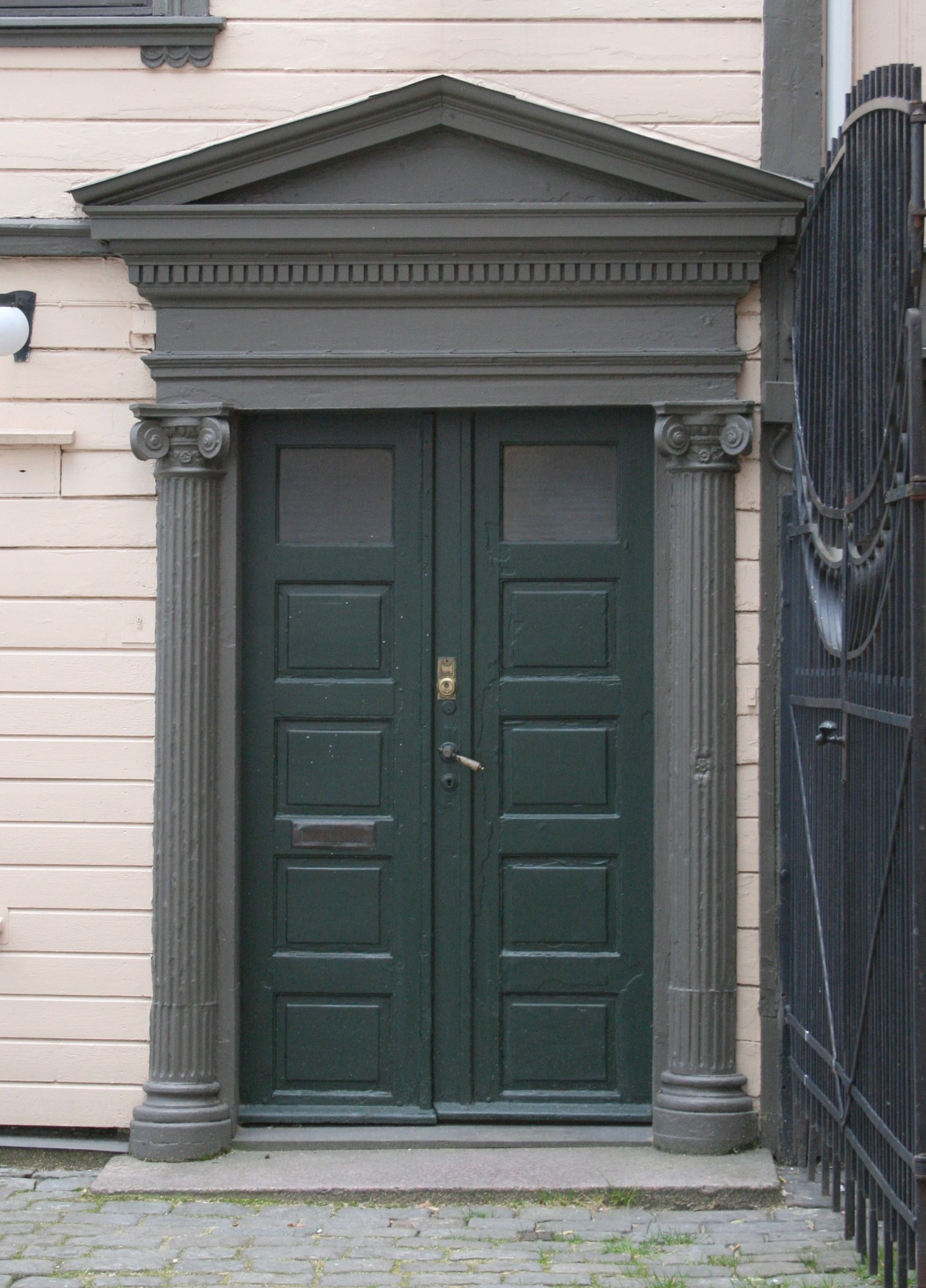 Portal,Kløckers house, Arendal Norway